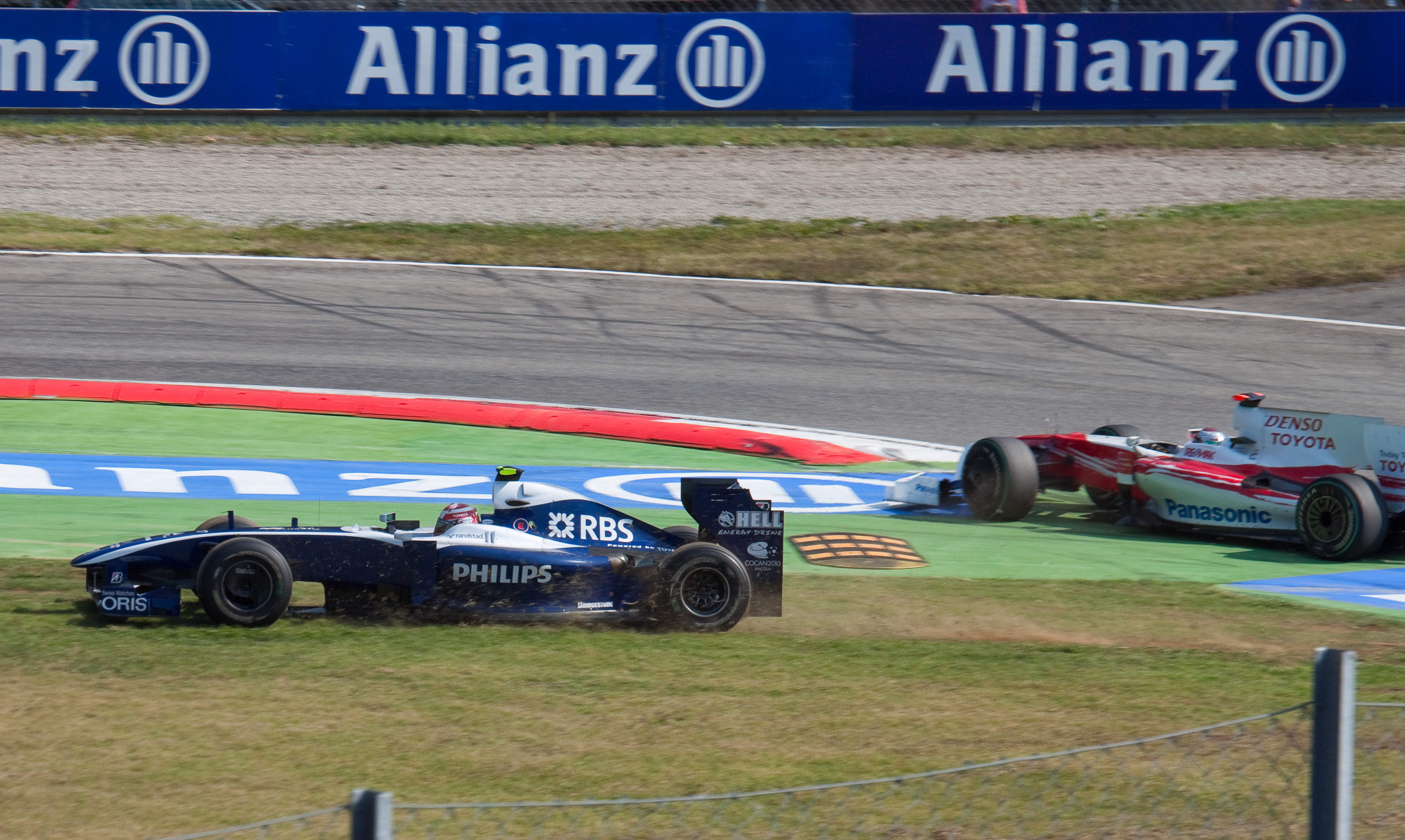 Kazuki Nakajima (Williams) goes off-track whilst trying to overtakes Jarno Trulli (Toyota) at the 2009 Italian Grand Prix.